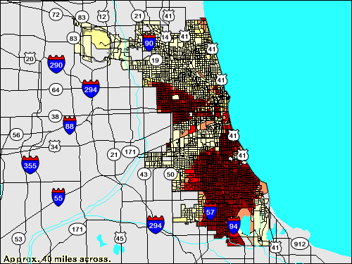 Thematic map of Chicago showing Black or African American population. Self-generated using the U.S. Census' American Factfinder at